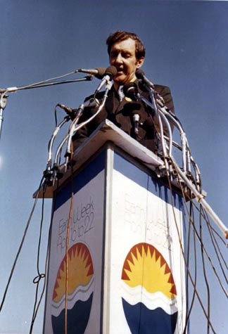 US Senator Edmund Muskie, author of the 1970 Clean Air Act, addressing an estimated 40,000-60,000 people as keynote speaker for Earth Day in Fairmount Park, Philadelphia on April 22, 1970.